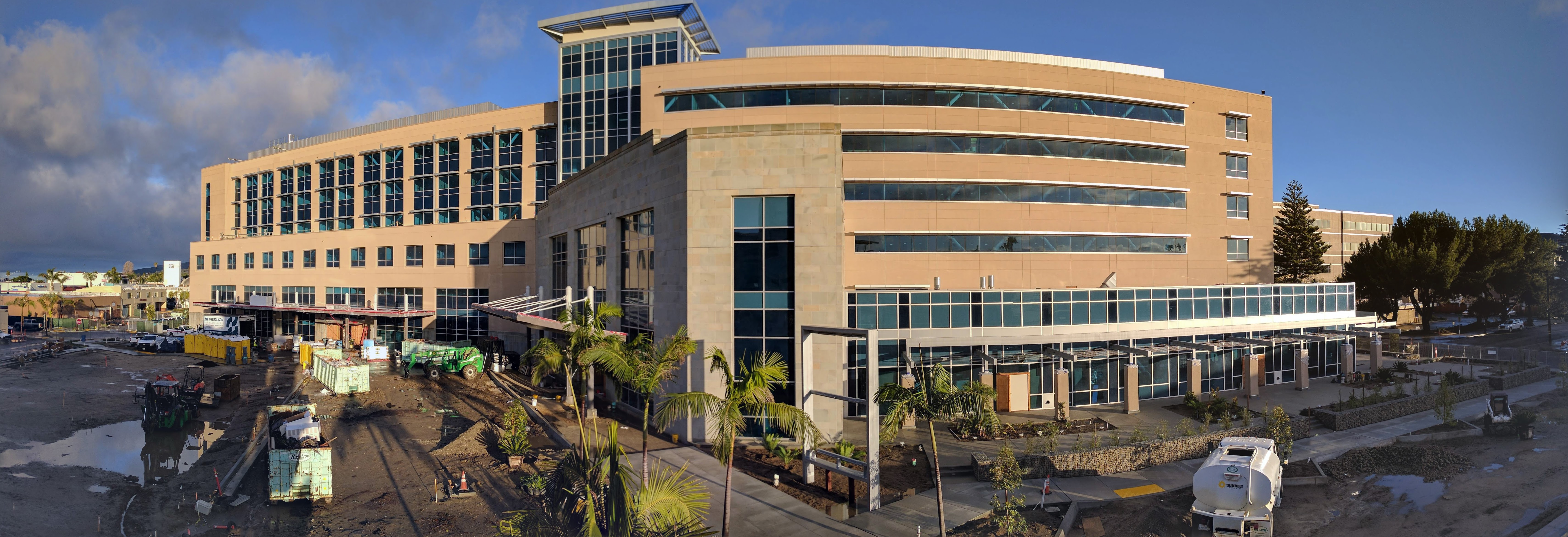 front of new hospital with road under construction